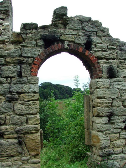 Starlight Castle A folly built as a bet by Sir Francis Delaval in 1750. The wager was that he could build a castle for a lady friend, in just one day.